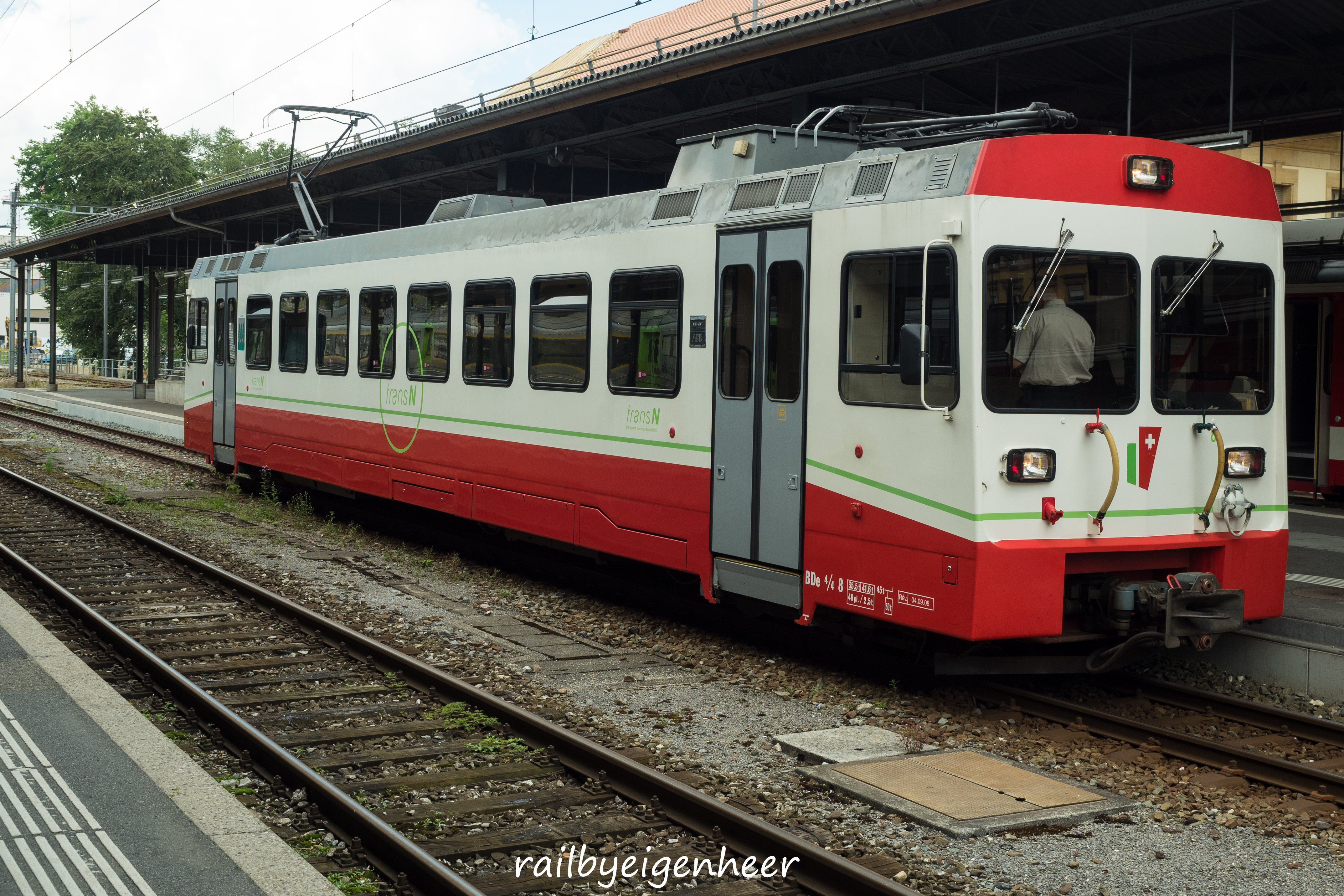 TRANSJURA 26.07.2016